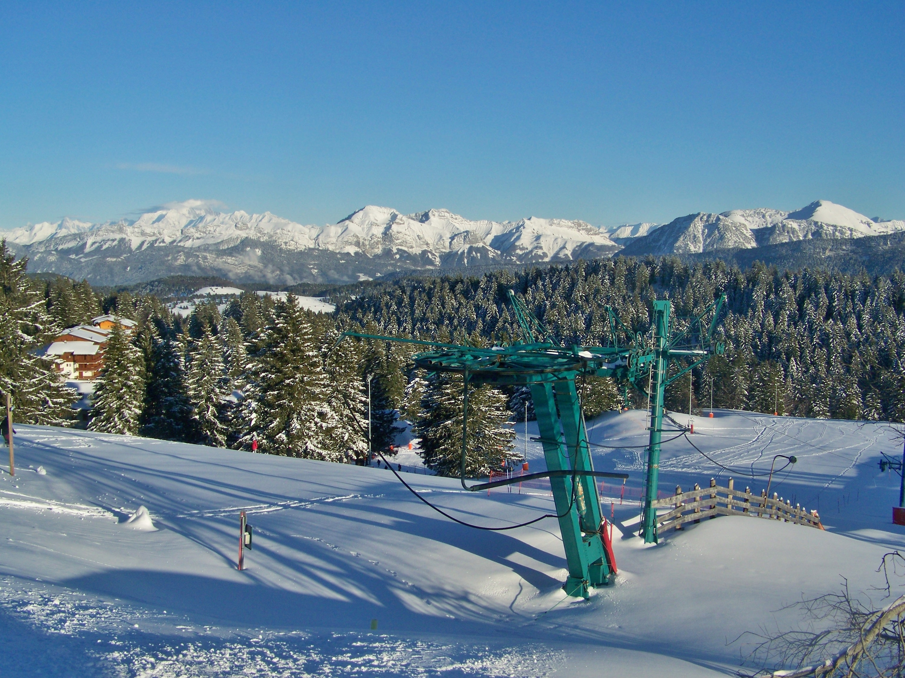 Sight of the Revard ski resort, in the Bauges mountains (Alps), with the Mont Blanc visible at the background, in Savoie, France.